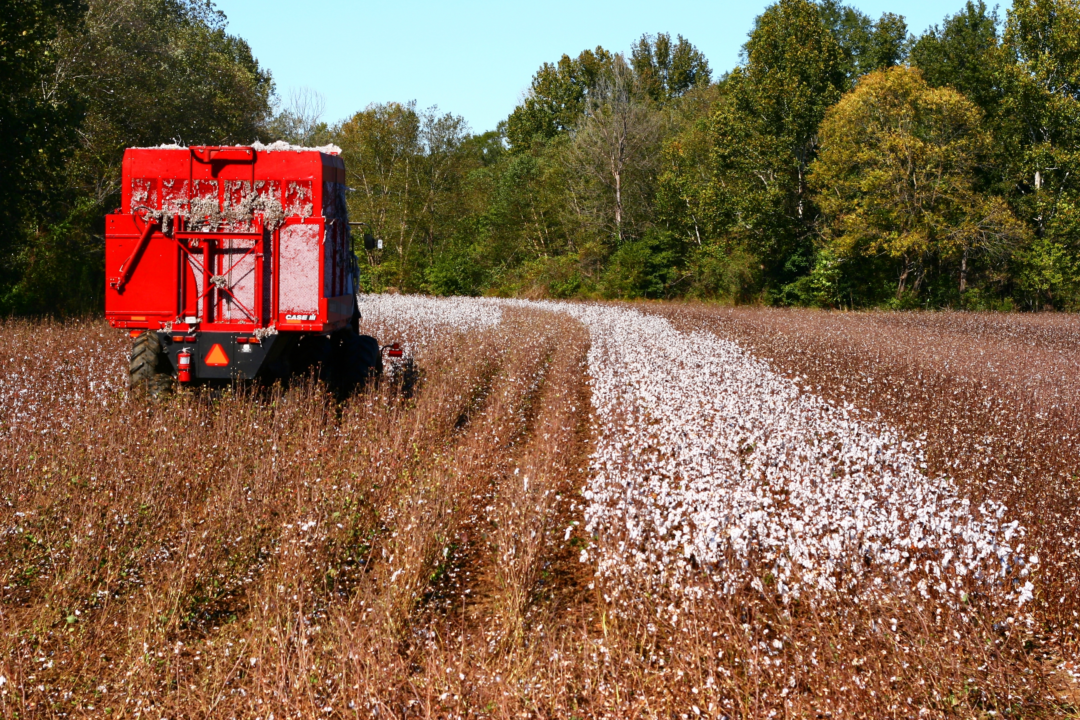 A Case IH cotton harvester at work on a cotton field; taken somewhere along highway 6 in N. Mississippi, USA.